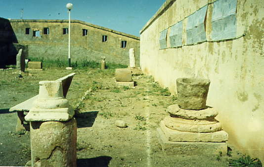 This is the southern courtyard of the local museum of Ténès. This photo was taken in 2004